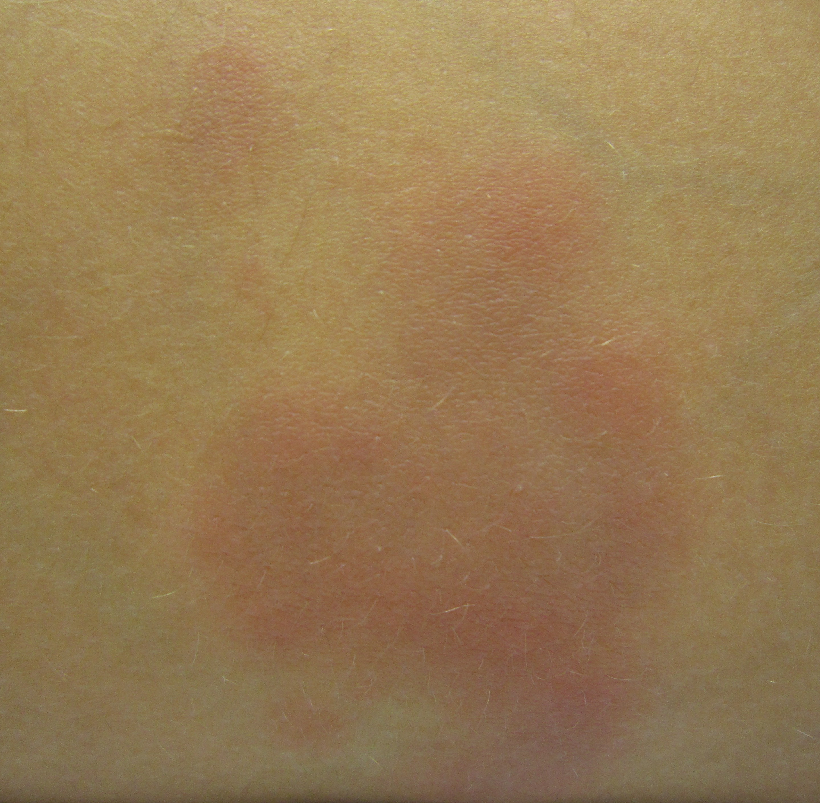 A single erthema nodosum lesion